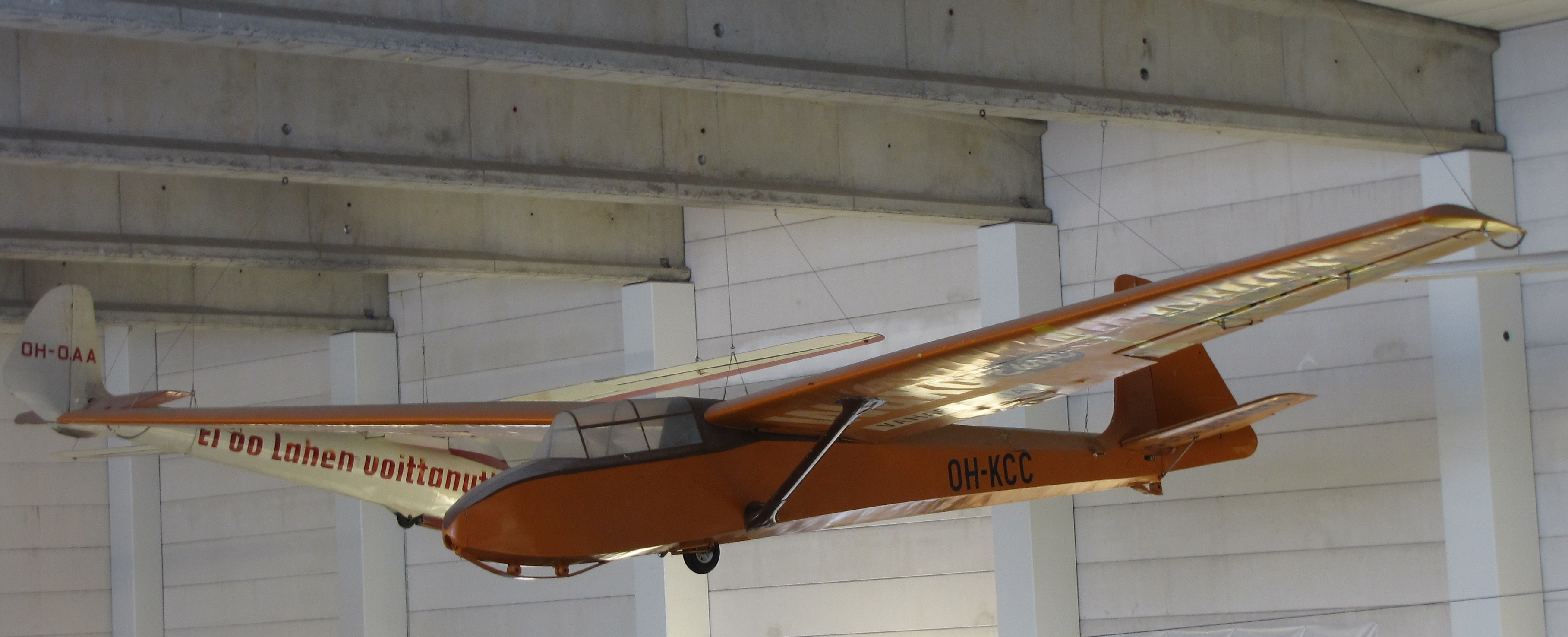 SZD-10bis Czapla glider in Finnish Aviation Museum, c/n W-51.